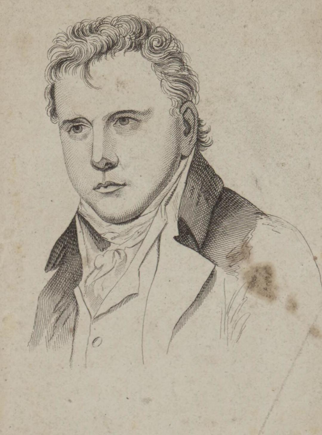 A portrait from the Welsh Portrait Collection at the National Library of Wales. Depicted person: Walter Scott – Scottish historical novelist, playwright, and poet